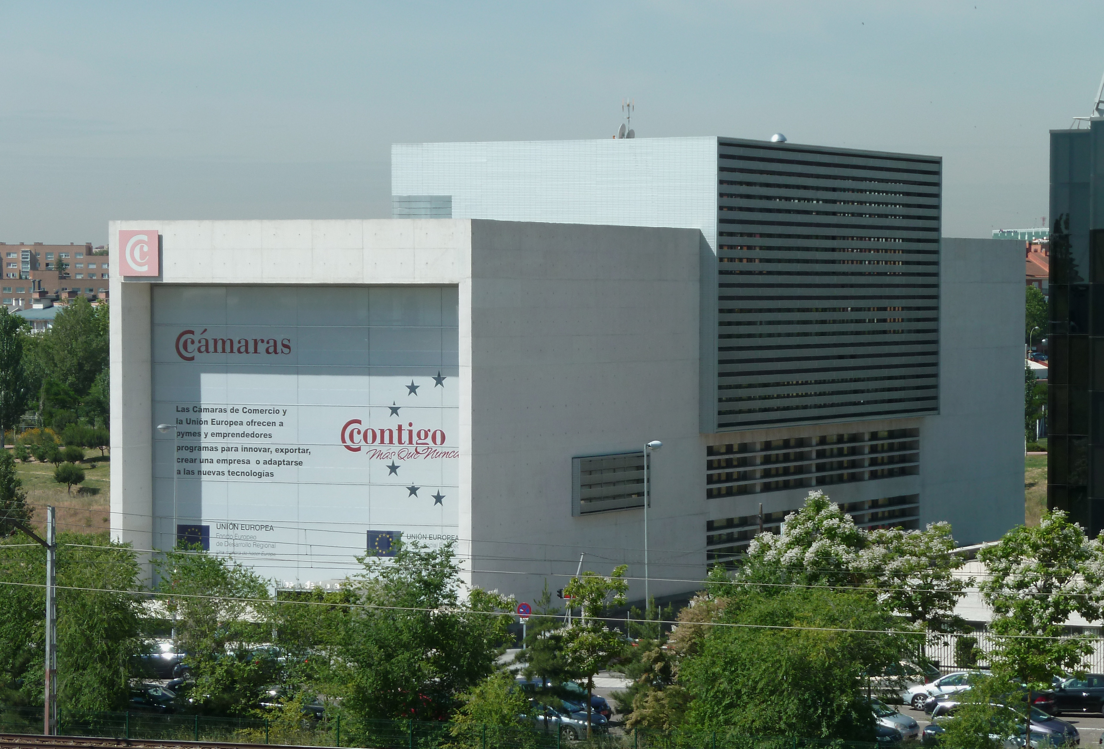 The headquarters of the Spanish High Council of Chambers of Commerce, at 12 Calle de la Ribera del Loira (street) in Barajas district in Madrid.